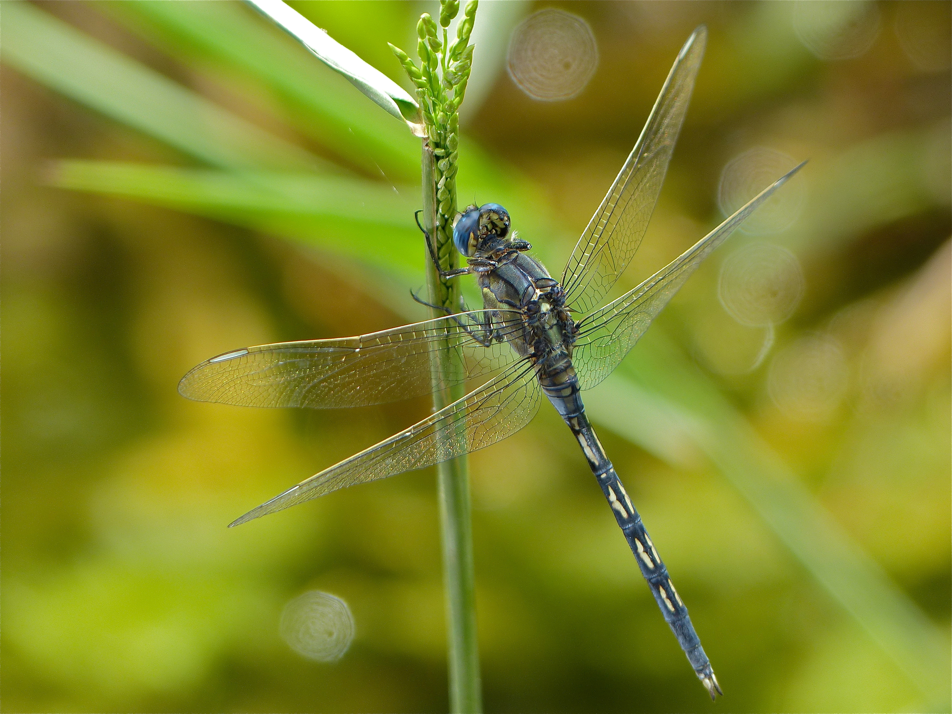 S90 Road South of Olifants, Kruger NP, SOUTH AFRICA